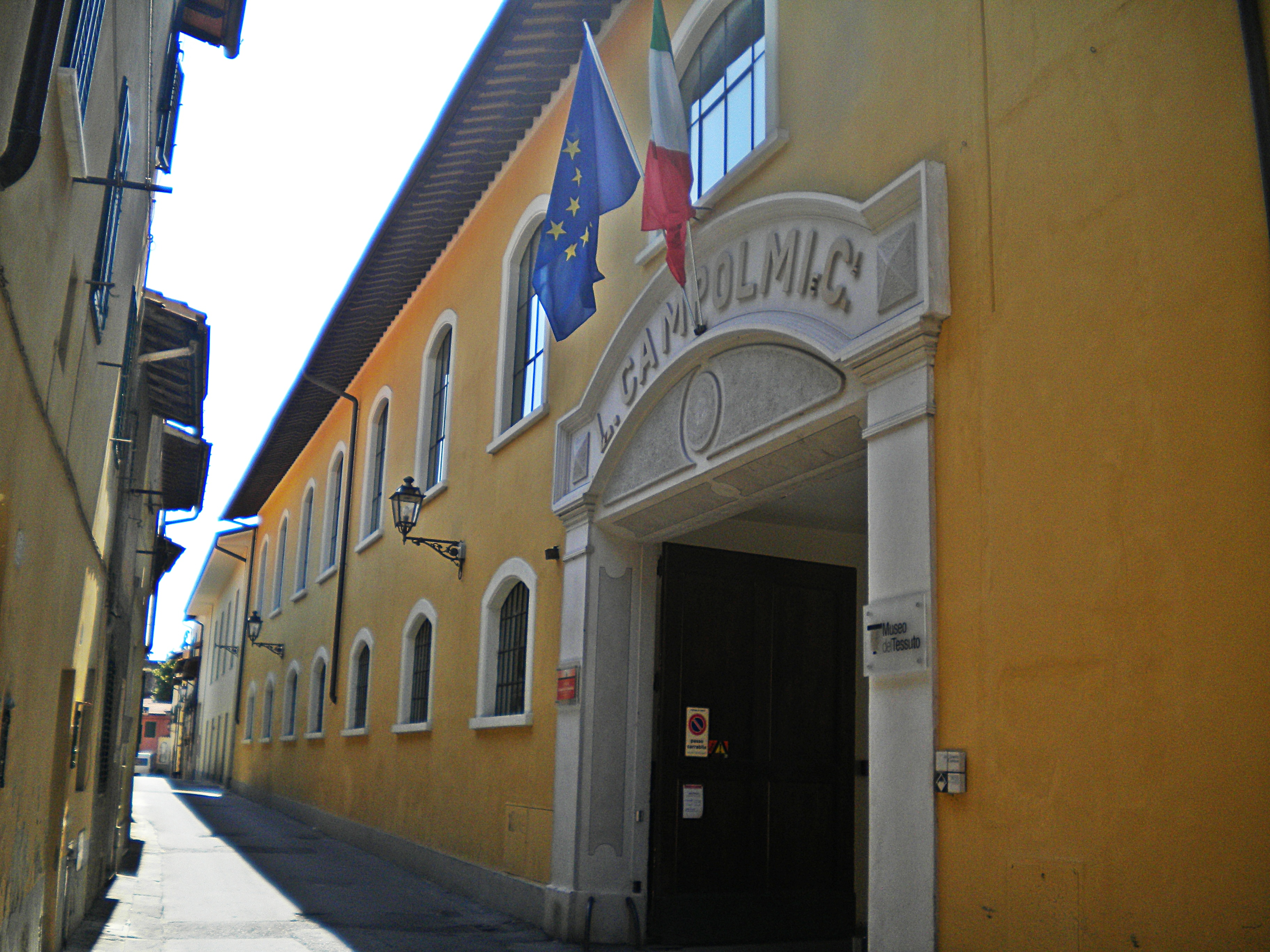 facade